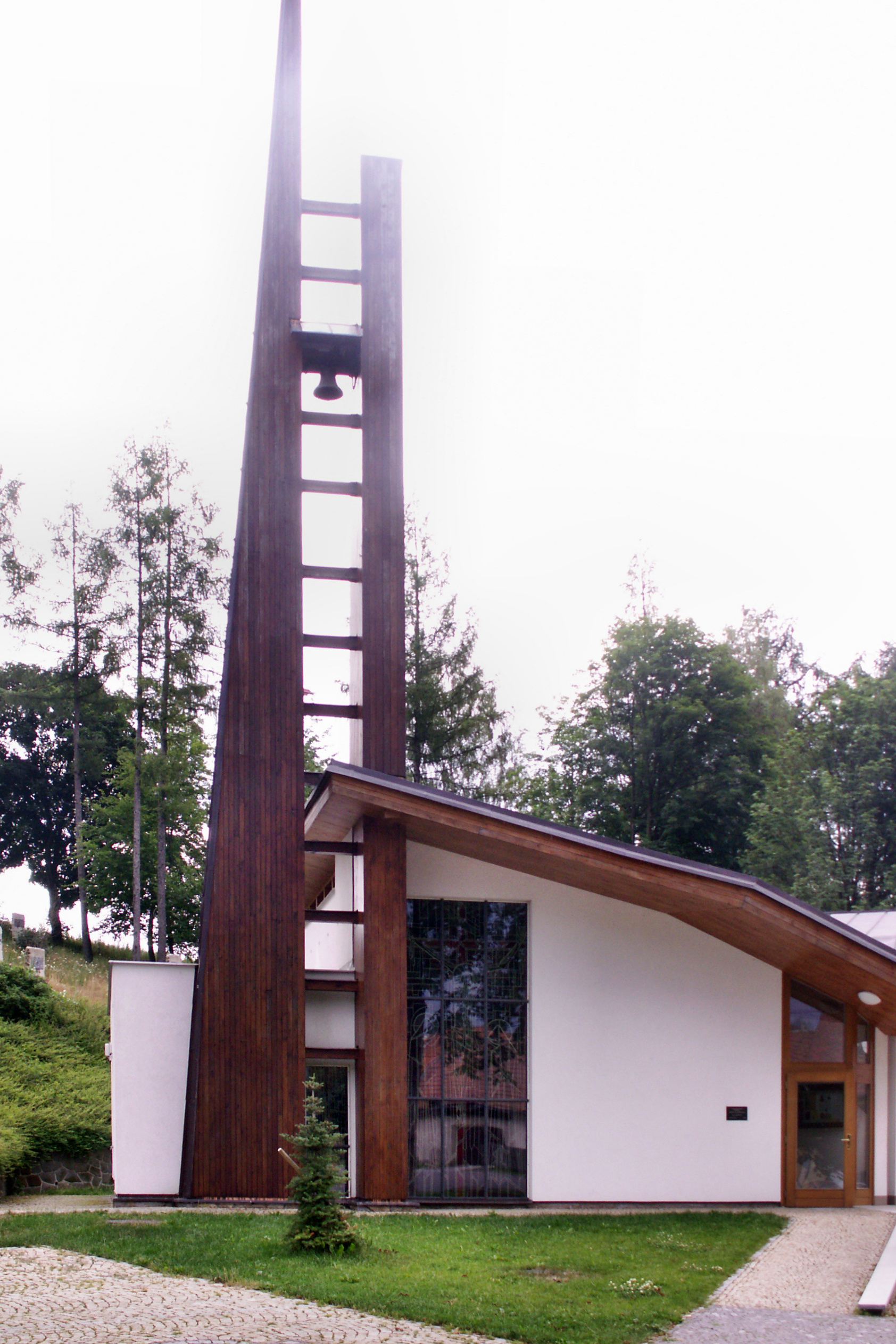 Slavkovice (Nové Město na Moravě), okres Žďár nad Sázavou, kraj Vysočina, kostel Božího milosrdenství a sv. Faustýny